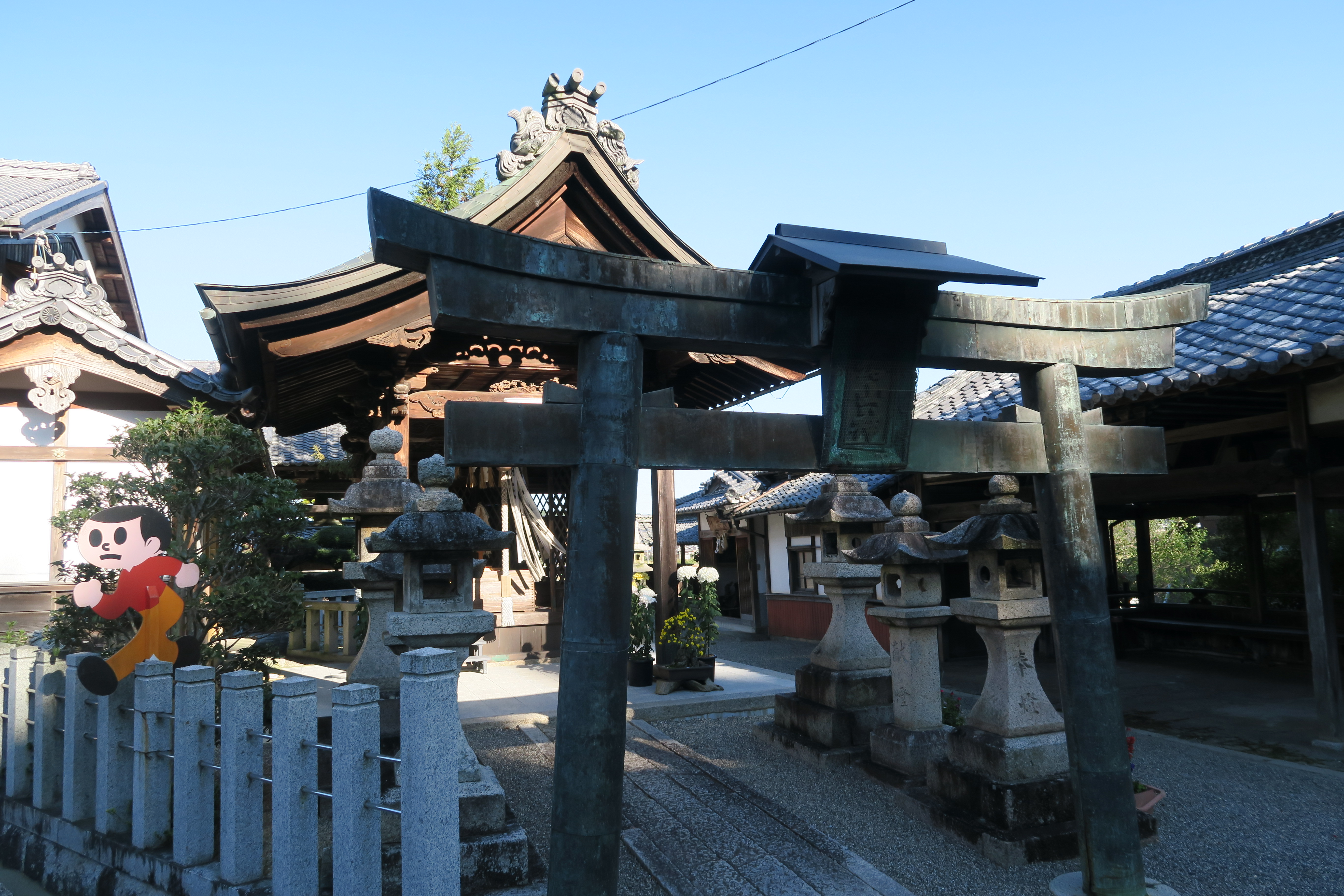 Kasayama-jinja, Koka, Shiga, Japan